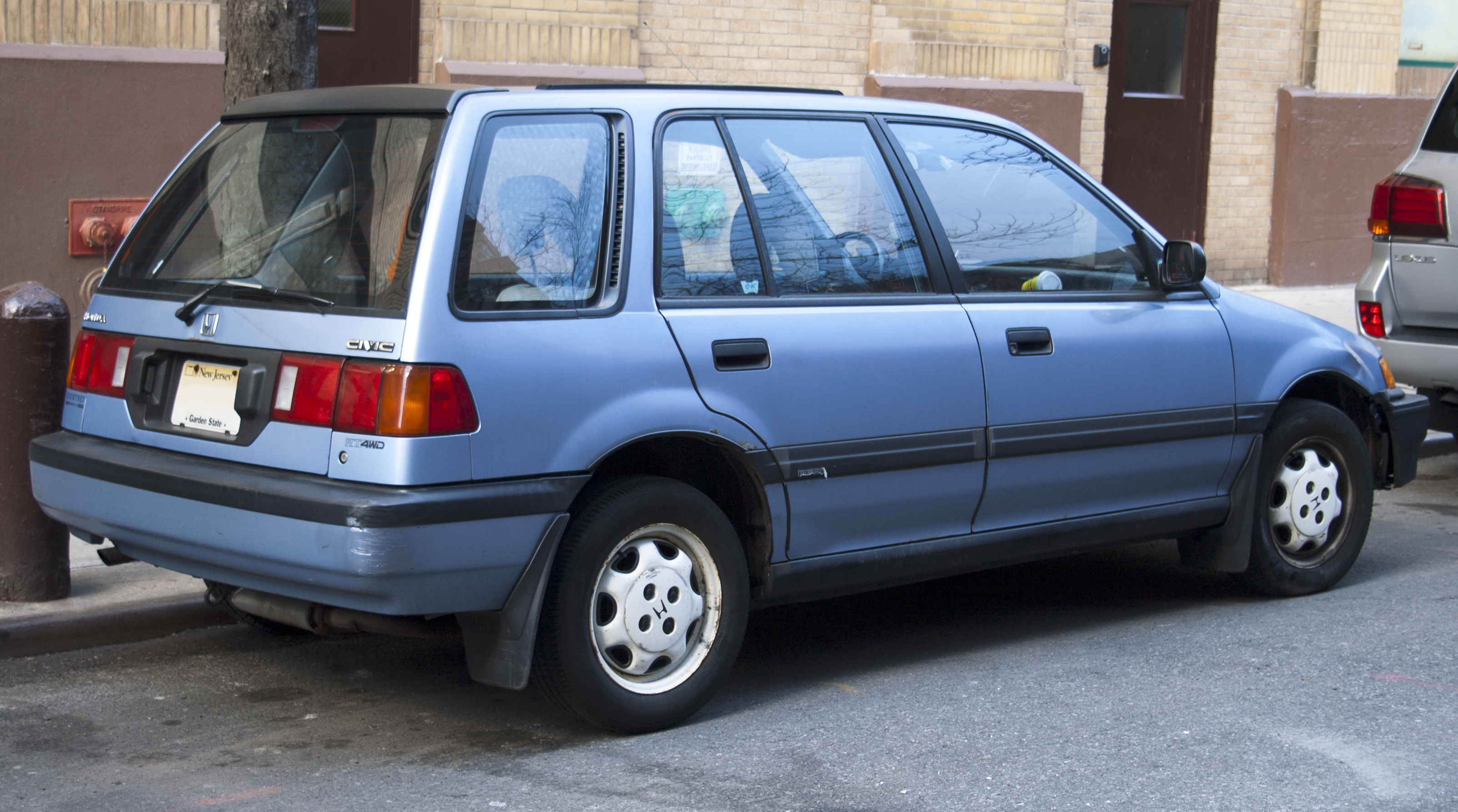 A late model Honda Civic Wagon (Shuttle) RT 4WD